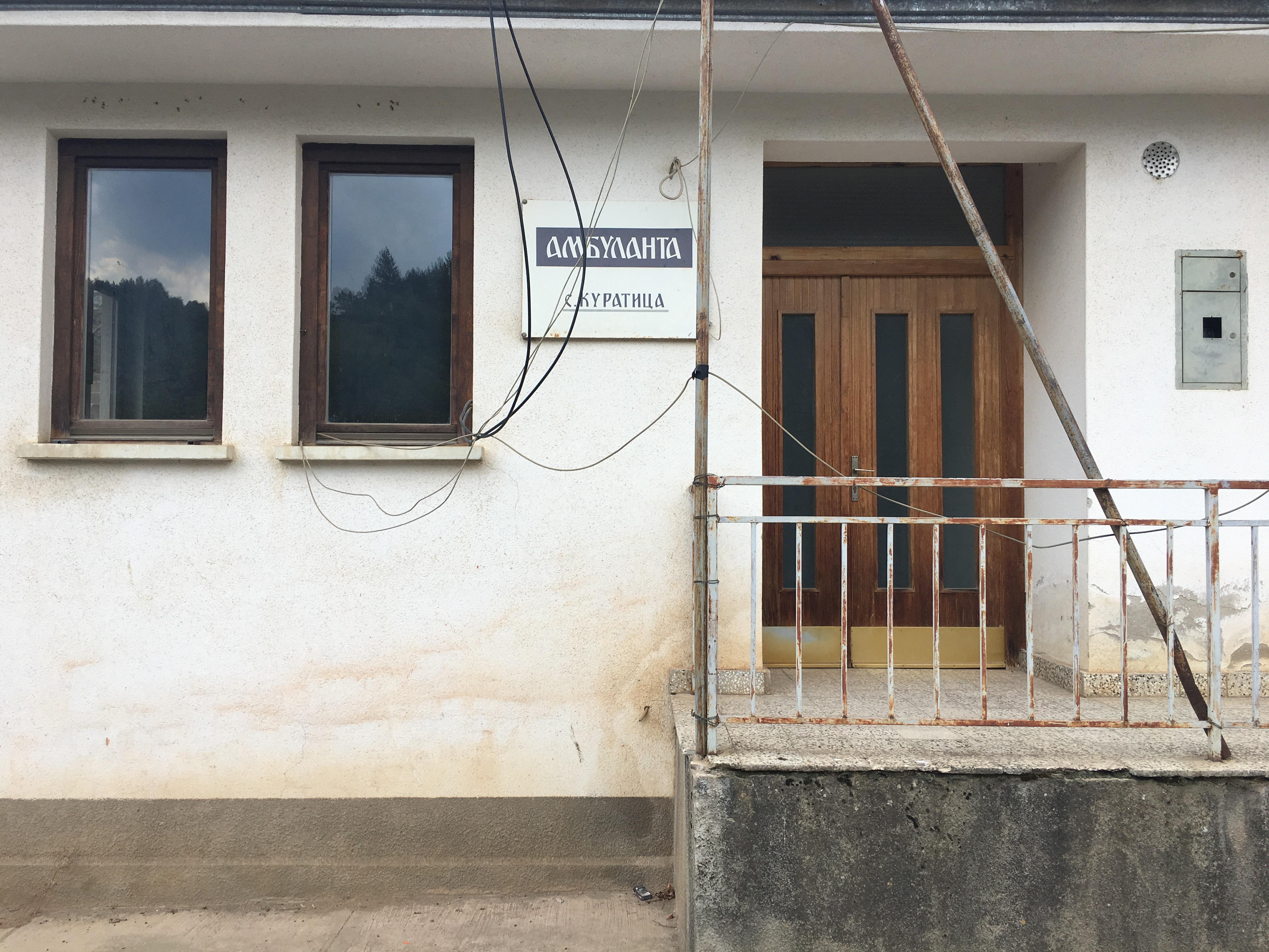 A health facility in the village of Kuratica